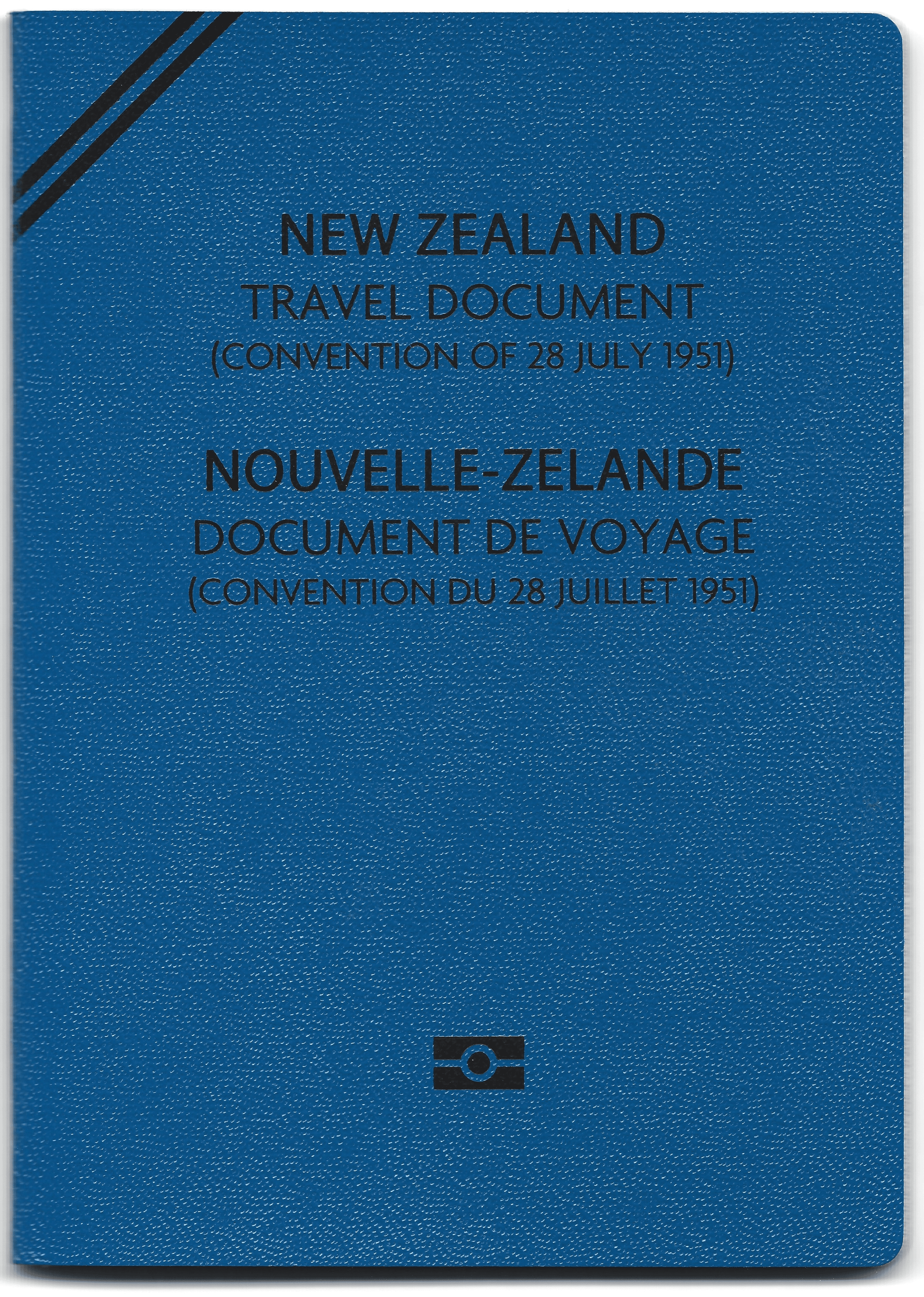 Front cover of New Zealand Refugee Travel Document